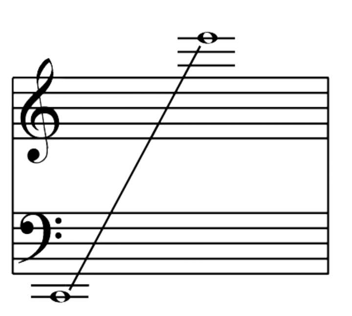 range of clavichord